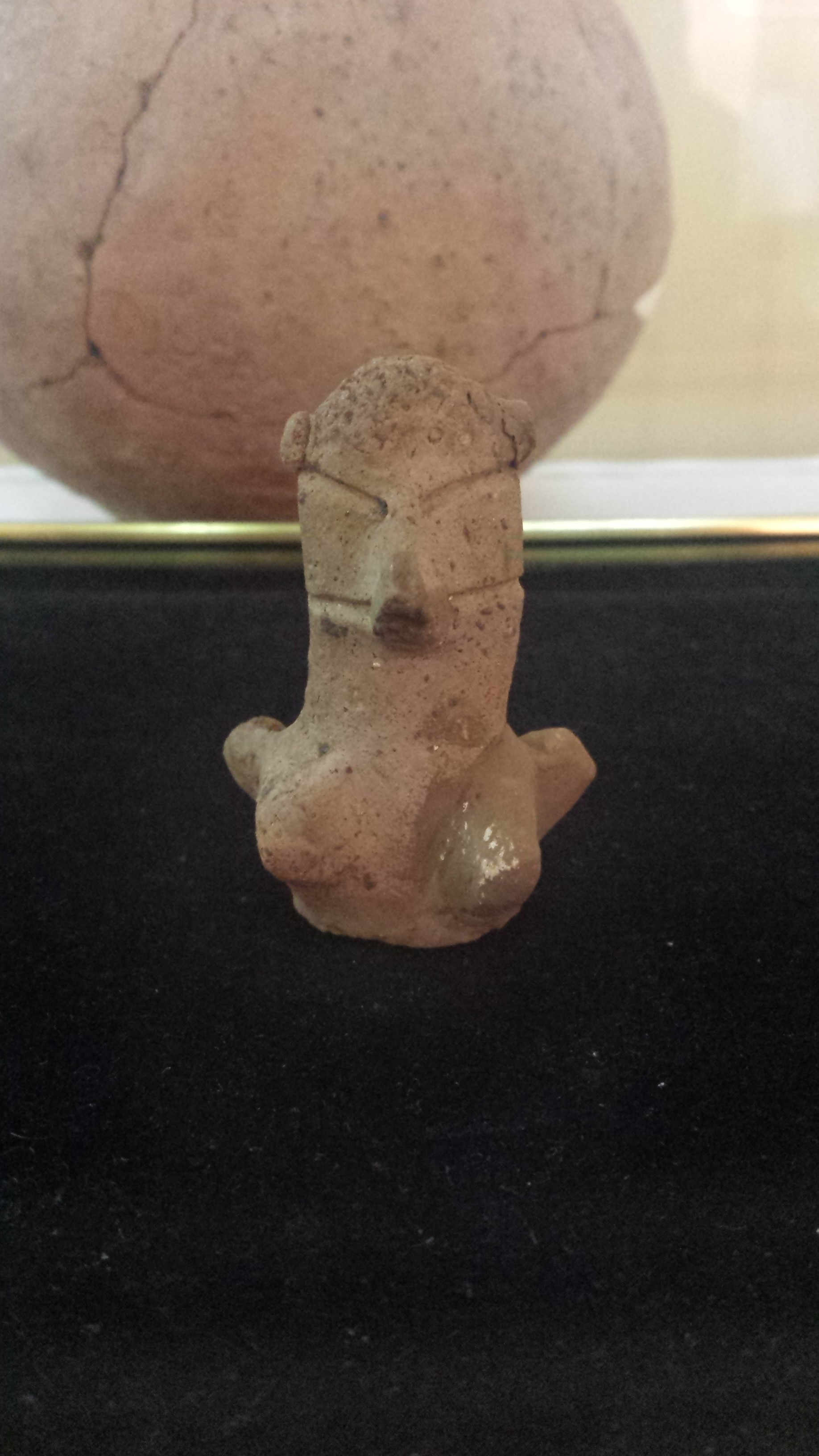 8000 years old